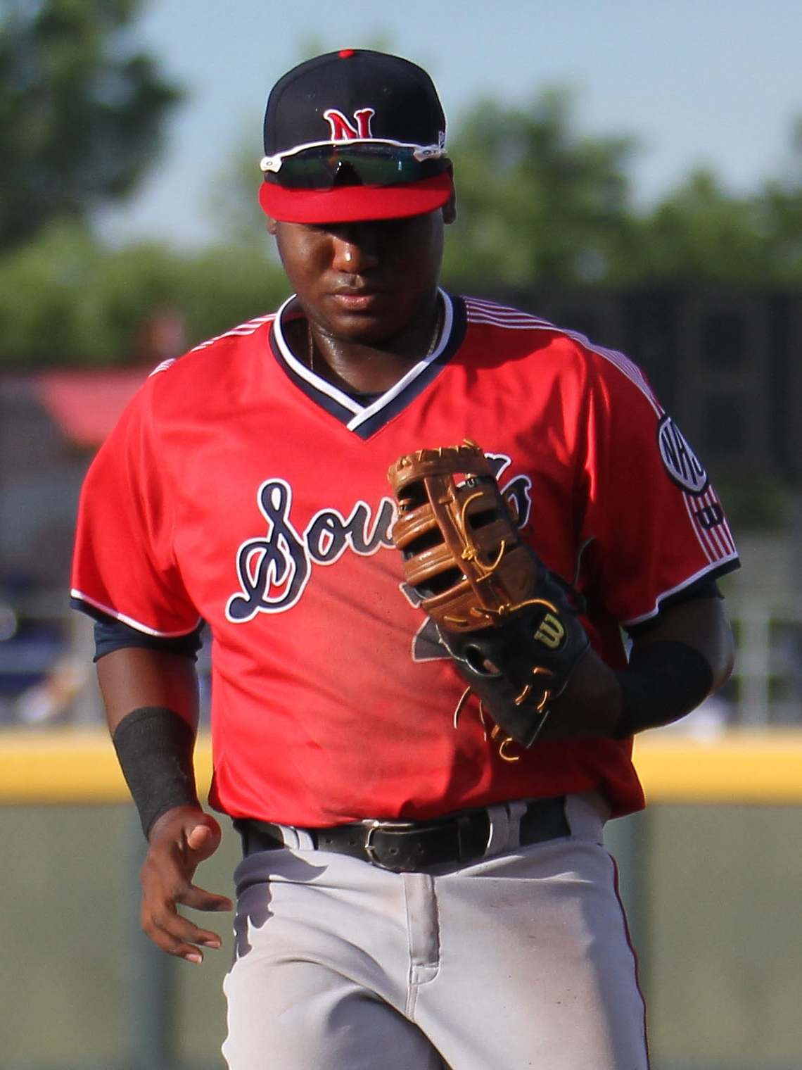 Minda Haas Kuhlmann | 2019 USAGE INSTRUCTIONS: You are welcome to share or publish to your own site or social media account, but you MUST credit me, Minda Haas Kuhlmann. Twitter: @minda33. Instagram: minda.haas